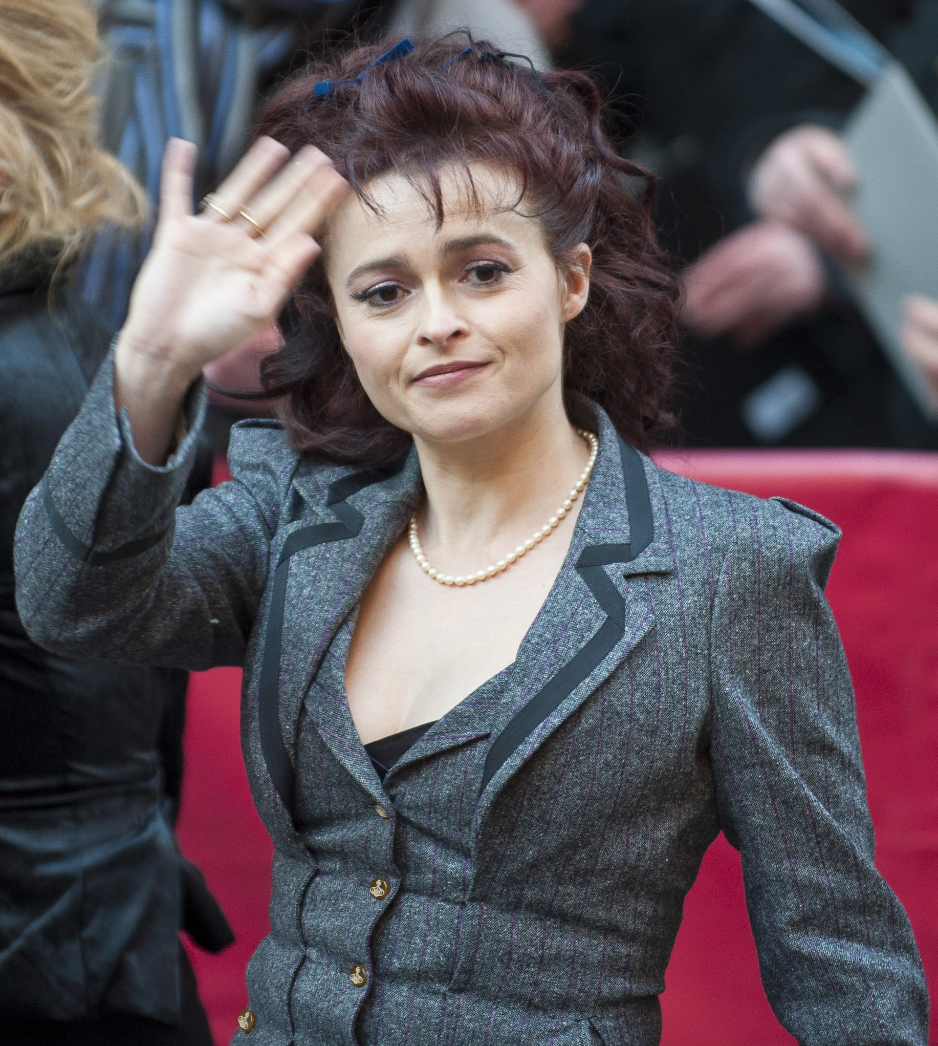 Helena Bonham Carter at the press conference of "Toast".